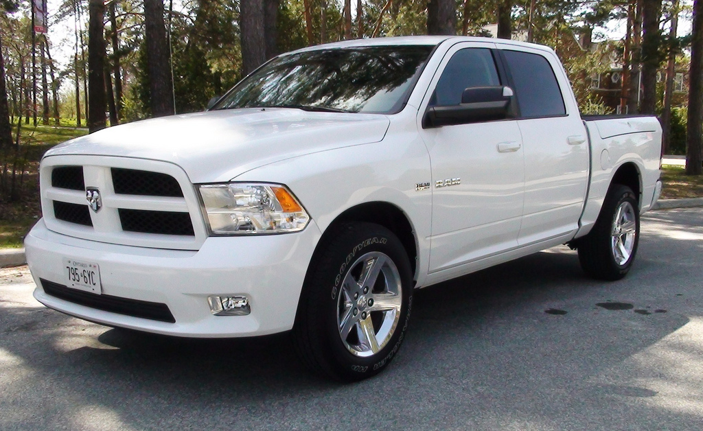 2010 Dodge Ram RAM 1500 Crew Cab Sport.